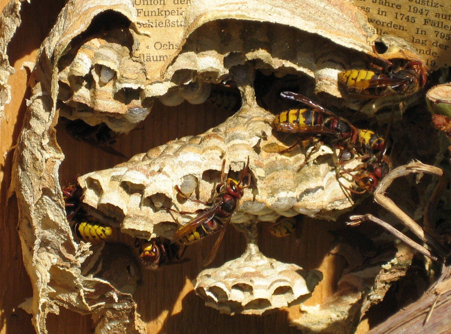 Detail hornets' nest opened up and being rebuilt. Location: Steffisburg, Switzerland